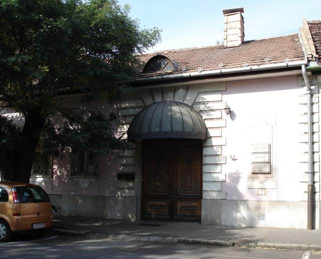 House of Gyula Feledy painter, exhibition. Miskolc, Hungary